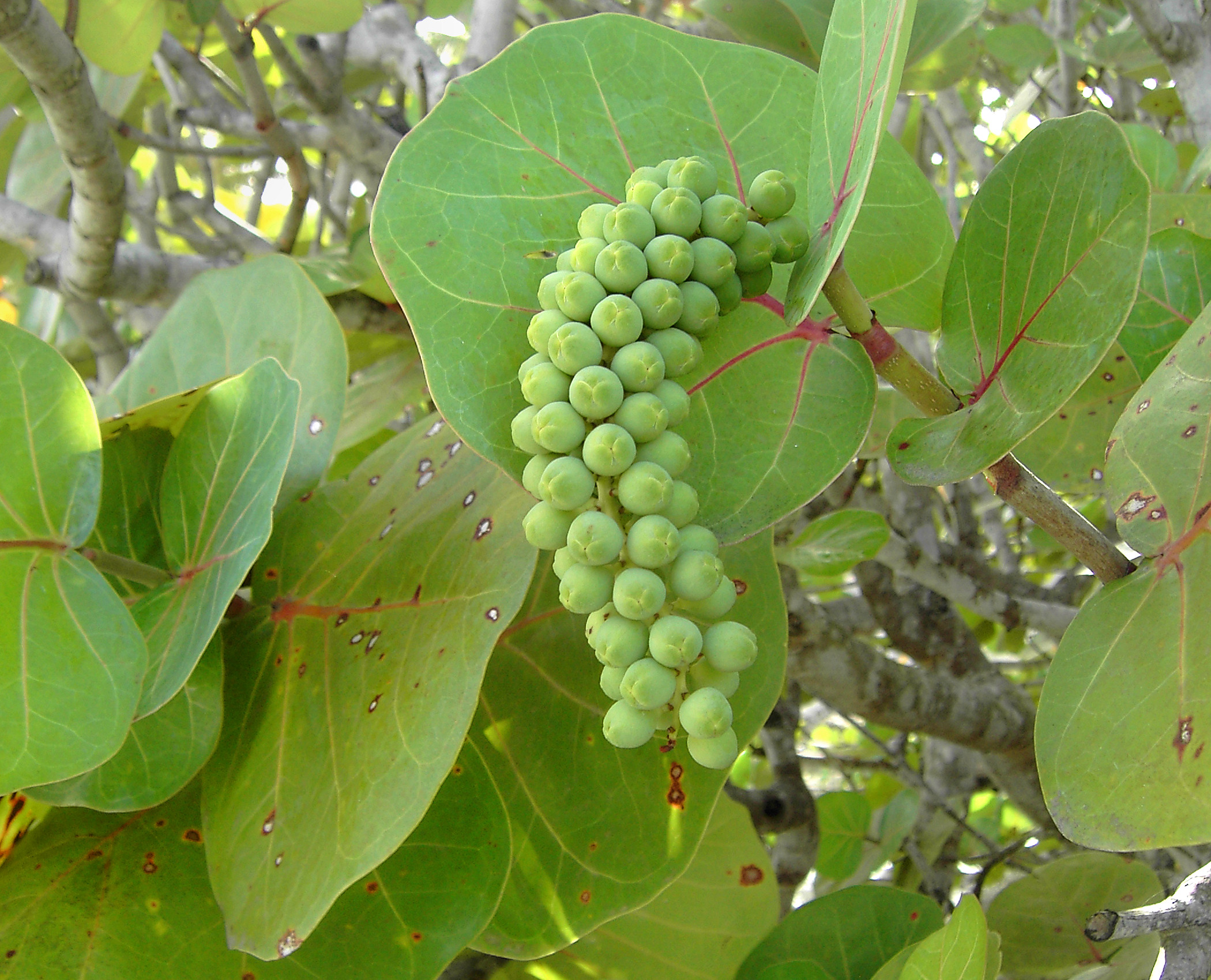 Seagrape fruits at Le Gosier, Guadeloupe